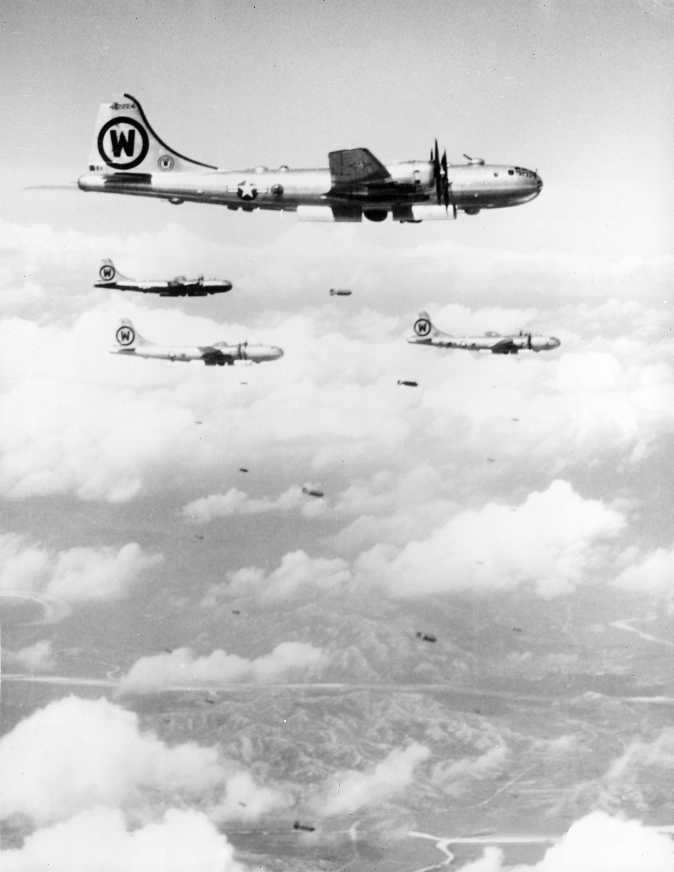 U.S. Air Force Boeing B-29 Stratofortress bombers from the 92nd Bombardement Group bombing a target in Korea, 1950.